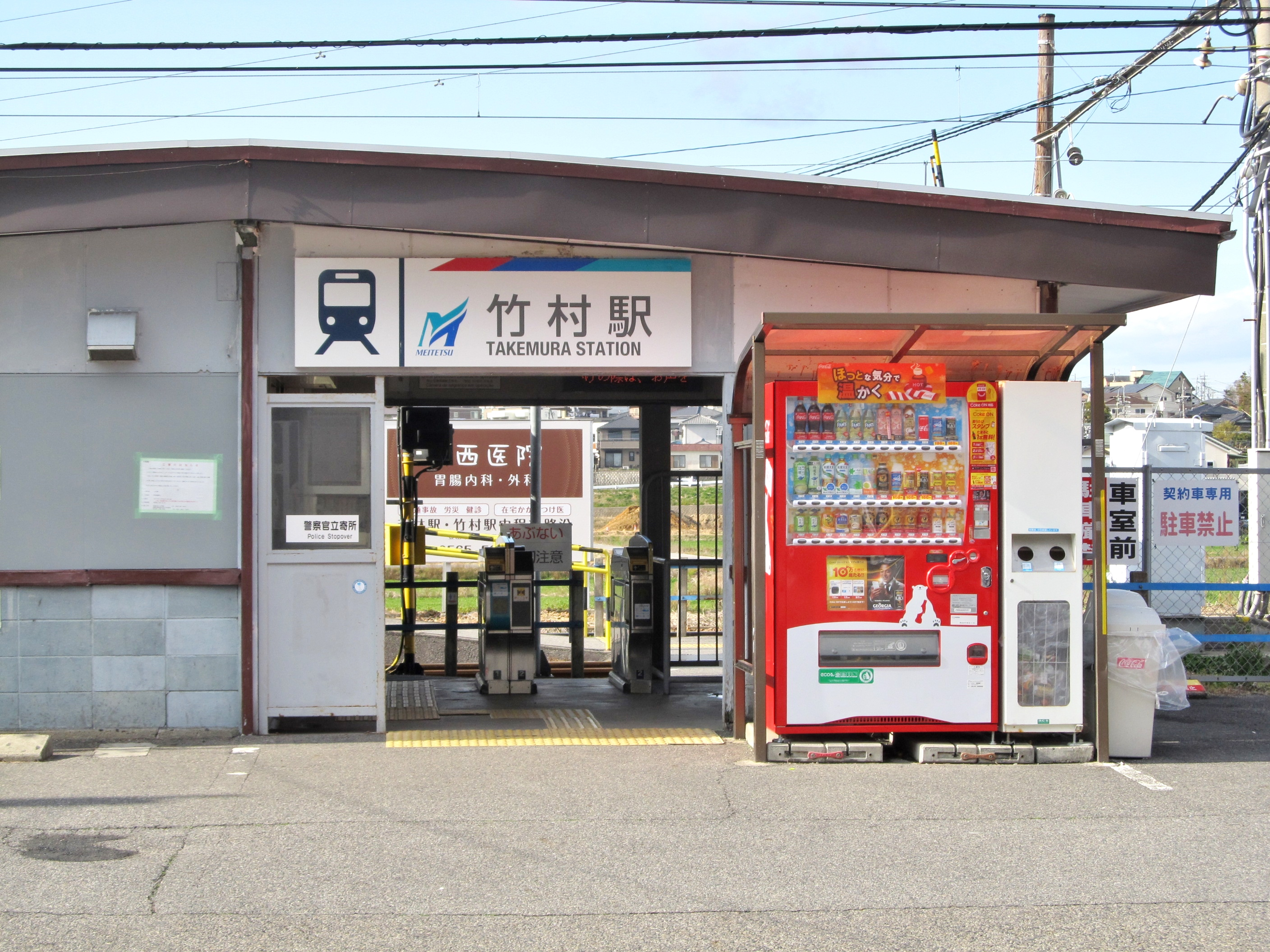 Nagoya Railroad Mikawa Line Takemura Station Building